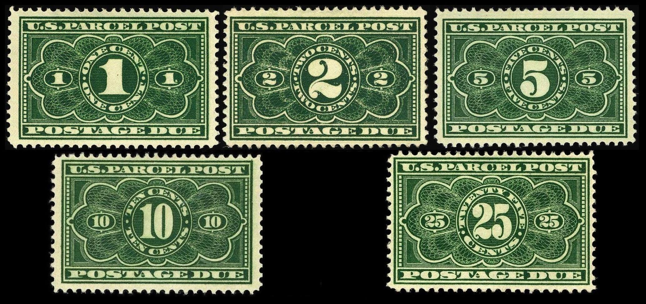 Composite photo of Parcel Post - Postage due stamps